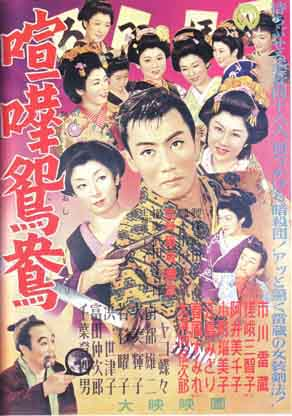 1956 Japanese movie poster for 1956 Japanese movie Fighting Birds (喧嘩鴛鴦 Kenka Oshidori).